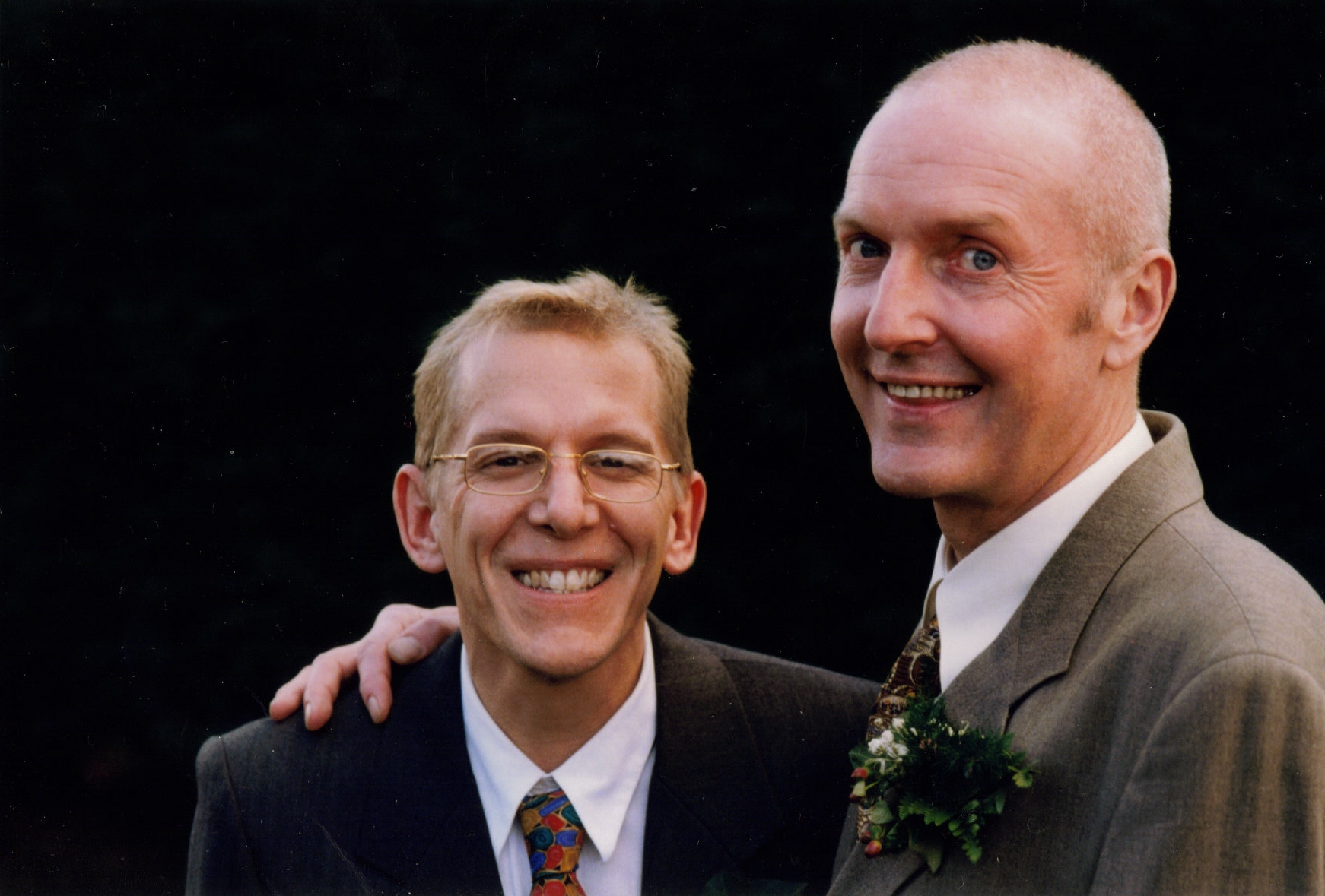 Photo of my husband and me at our wedding reception on the farm